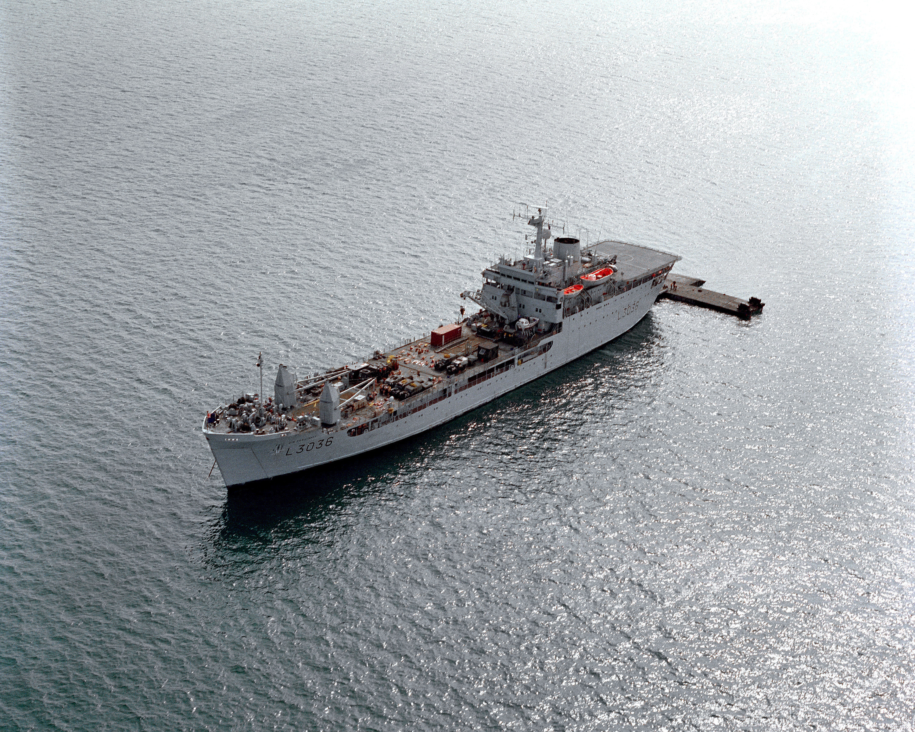 An aerial port bow view of the British logistic landing ship RFA SIR PERCIVALE (L 3036) at anchor during the NATO Southern Region exercise DRAGON HAMMER '90.